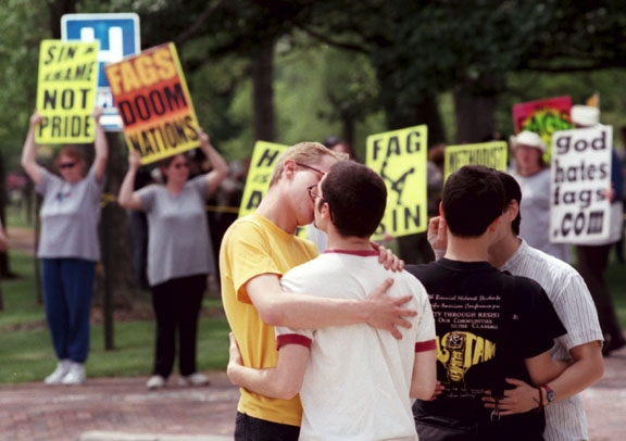 Oberlin College, in Oberlin, Ohio, on Tuesday May 10, 2000. Gay and lesbian students kiss in front of a group of anti-homosexual protestors. The protests were brought into Oberlin by Fred Phelps of the Westboro Baptist Church of Topeka, Kansas, and have also been protesting the General Conference of the United Methodist Church in Cleveland, Ohio. Several hundred Oberlin College students turned out to rally against the out-of-town protesters. (Photo/Paul M. Walsh)